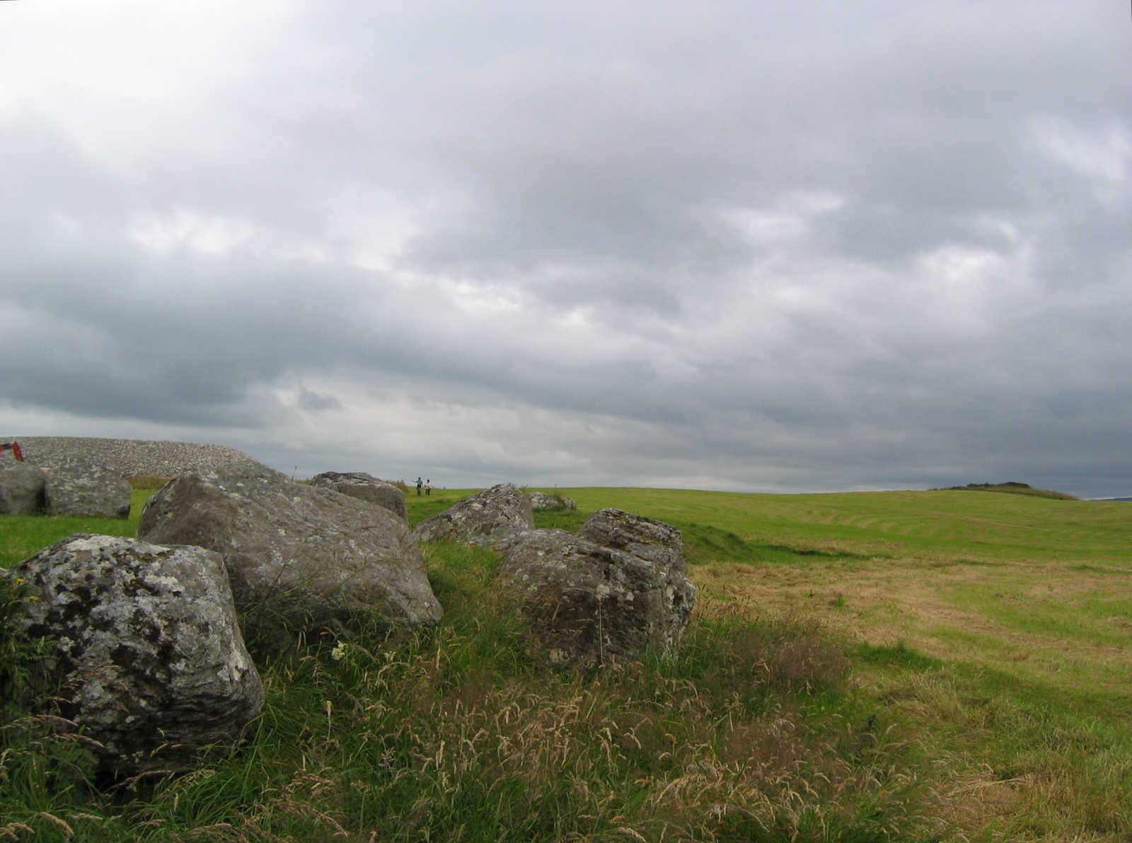 Landscape of the Knockarea, Sligo, Ireland